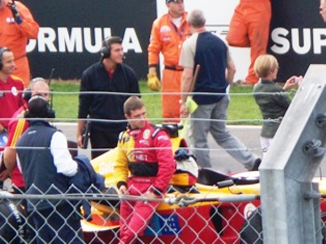 Galatasaray SK Racing Team Car on grid